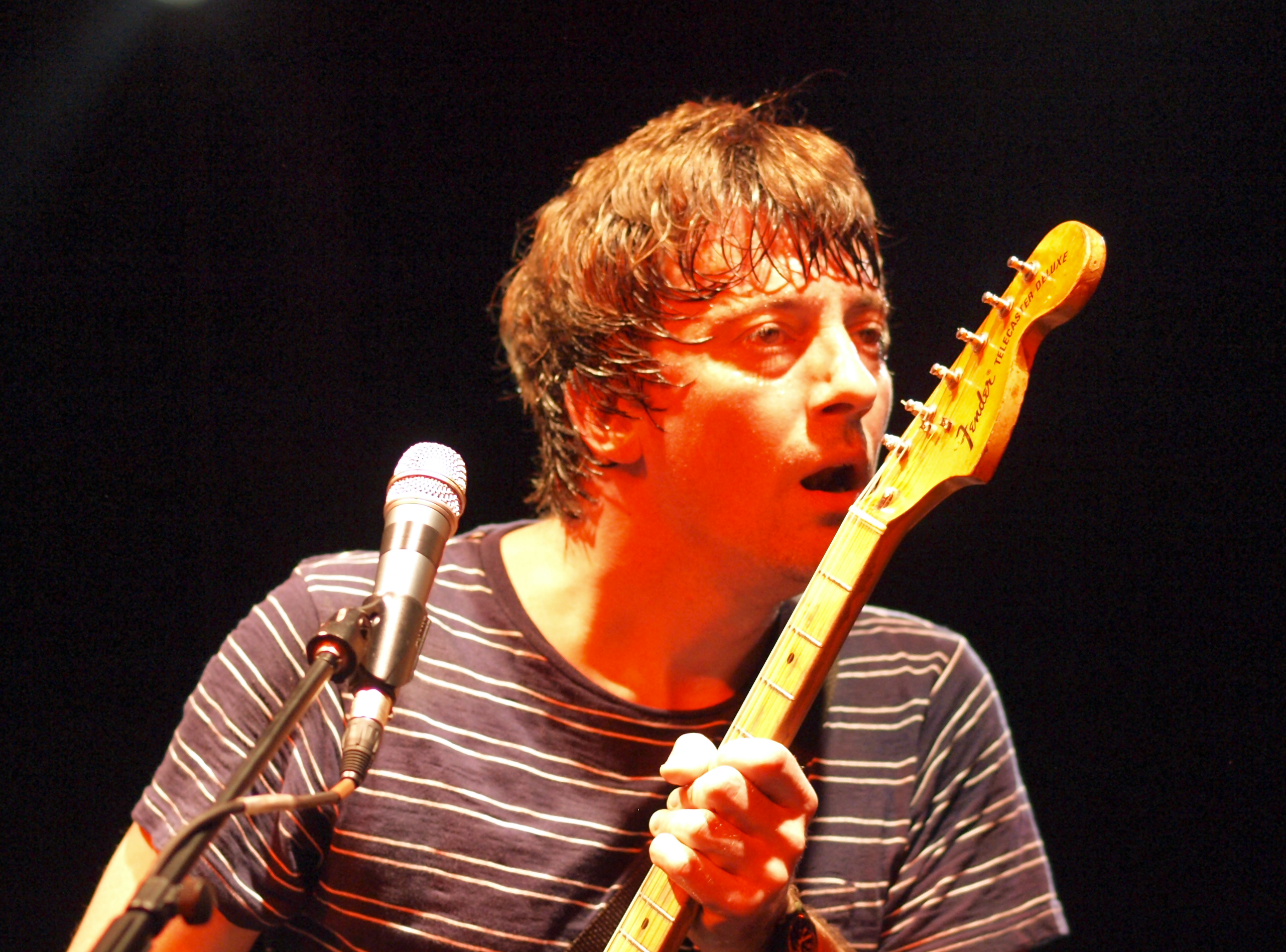 Graham Coxon @Cambridge Junction